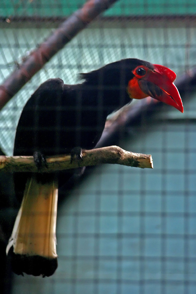 A female Aceros leucocephalus @ bacolod endangered animals zoo